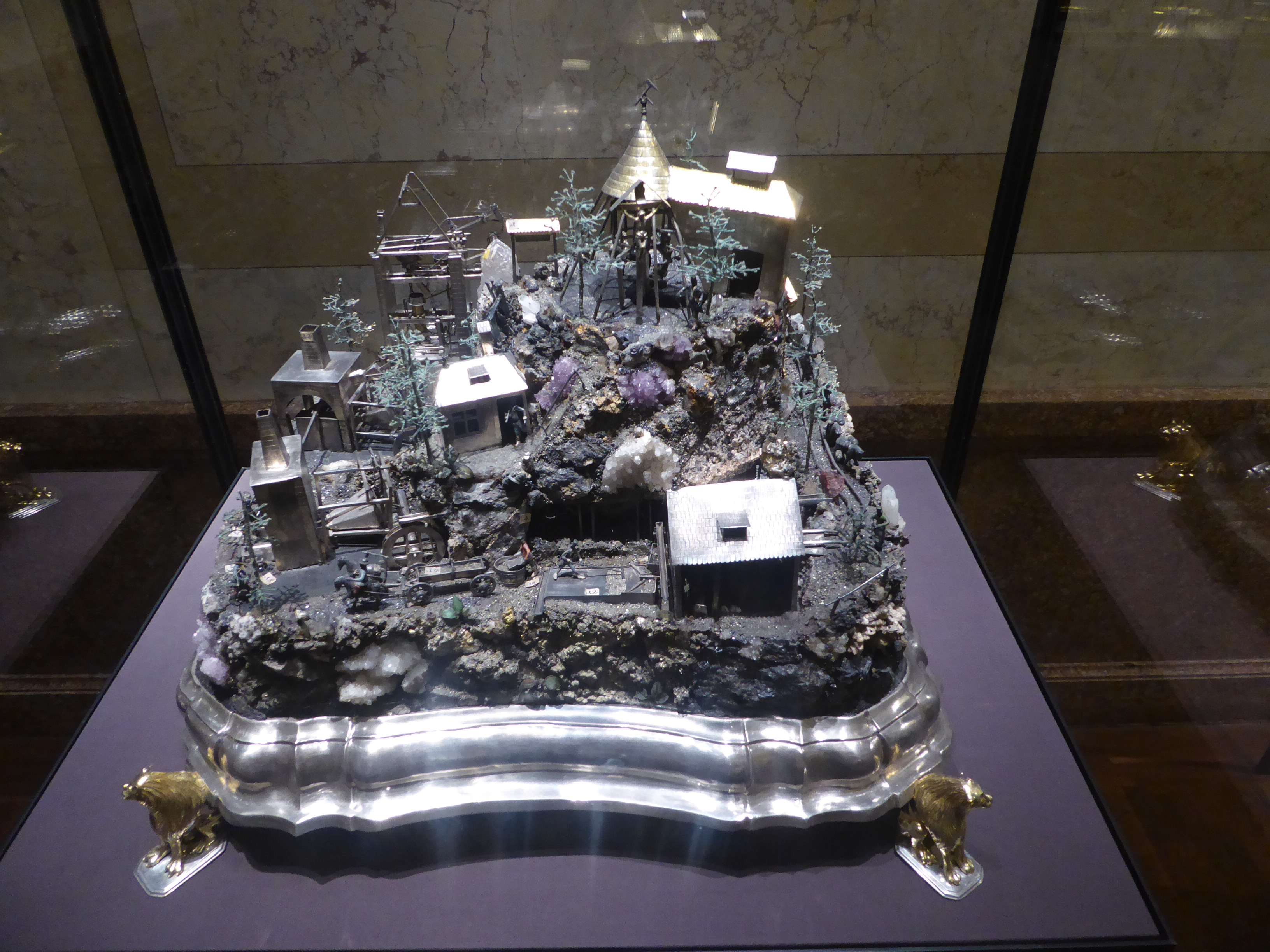 Model depicting a gold mine with steam engine pump, made of minerals and partially gilded silver, dedicated to Joseph II, Holy Roman Emperor and presented to him in Kremnica in 1764. Exhibited in the Kunstkammer collection in the Kunsthistorisches Museum, Wien. See photos of this sculpture on the homepage of the museum. I have taken this photo in 2018-03-13.